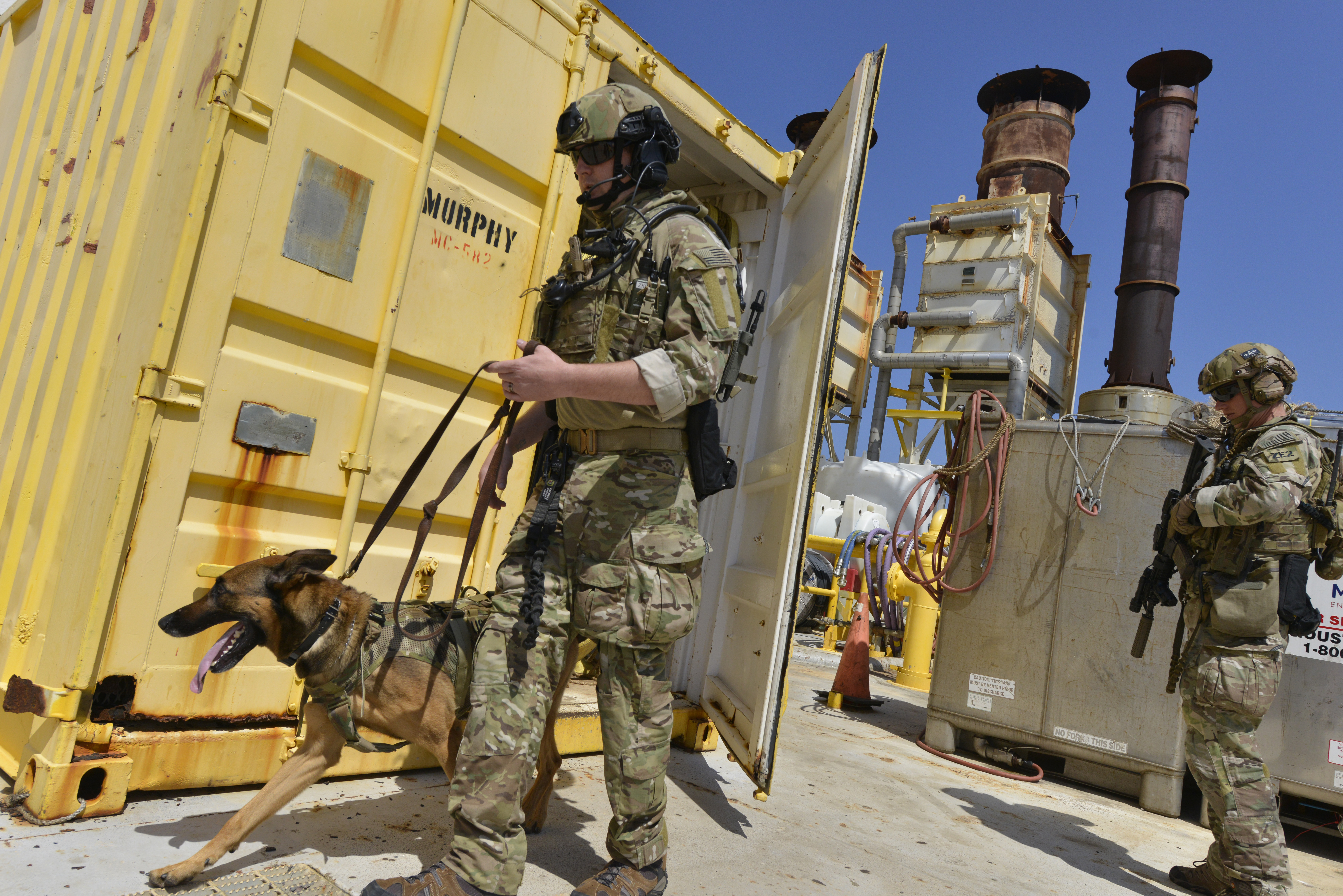 Tosca and her Maritime Security Response Team canine officer sweep the deck of Mississippi Canyon Block 582, Medusa Platform during a joint exercise May 21, 2014. The MSRT, Murphy Oil Corporation, and DoD worked together to train to respond to threats aboard the production facility. U.S. Coast Guard photo by Chief Petty Officer Robert Nash.